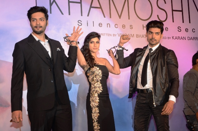 Launch of 'Bheegh Loon' song from Khamoshiyan